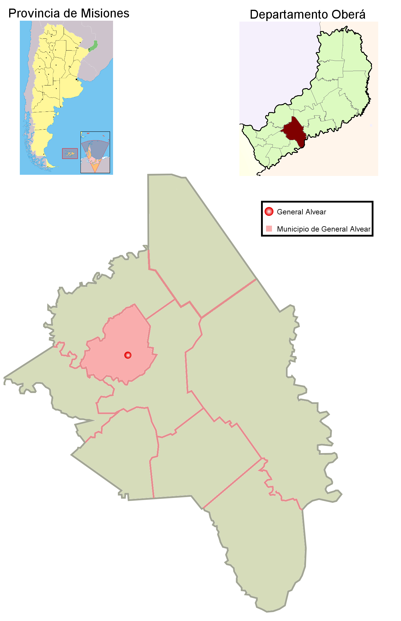 A map showing municipio of General Alvear in Oberá departament, Misiones province, Argentina. Also shows General Alvear town location. Created with GIMP.